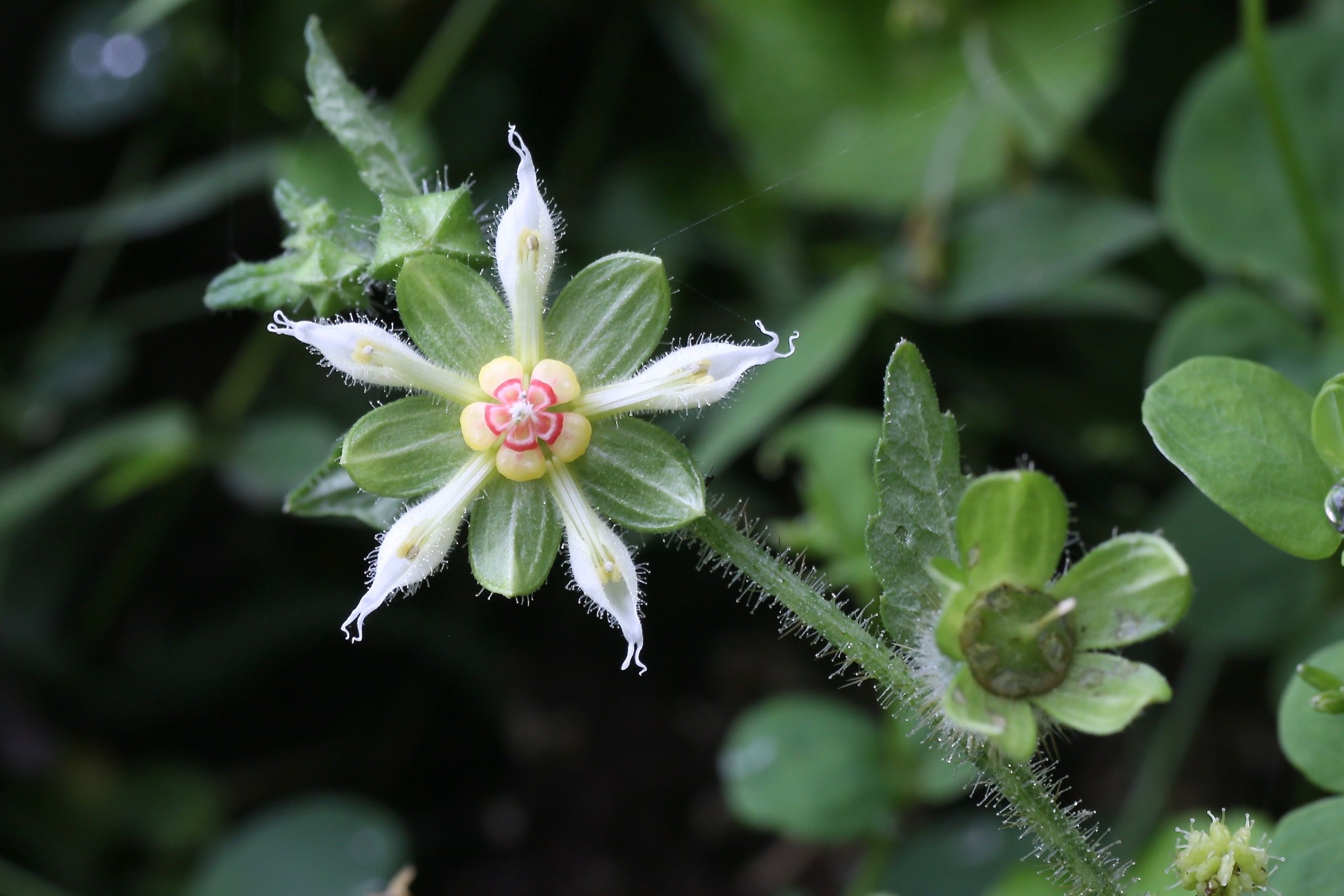 Ecuador, Mindo, Yellow House trail